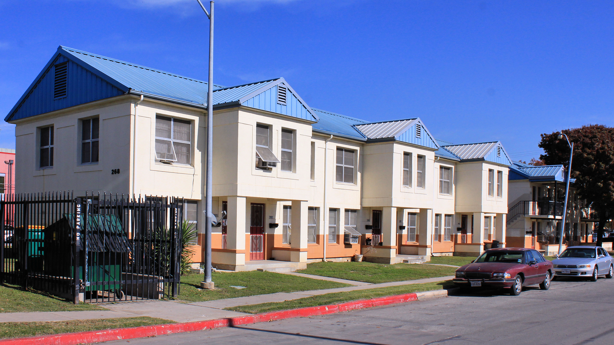 A typical unit in the Alazan-Apache Courts housing project, San Antonio, Texas, United States. The United States Housing Authority funded most of the cost for the project which was completed in 1939.